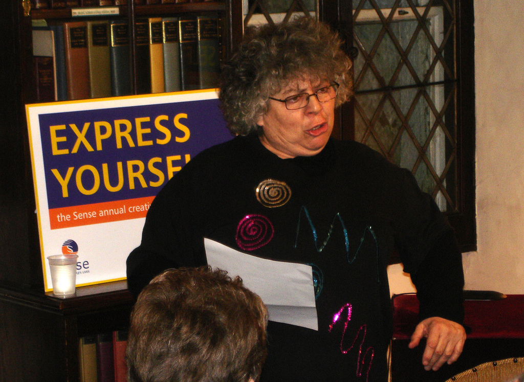 Miriam Margolyes reading an extract from Oliver Twist at the Express Yourself creative writing awards for Sense